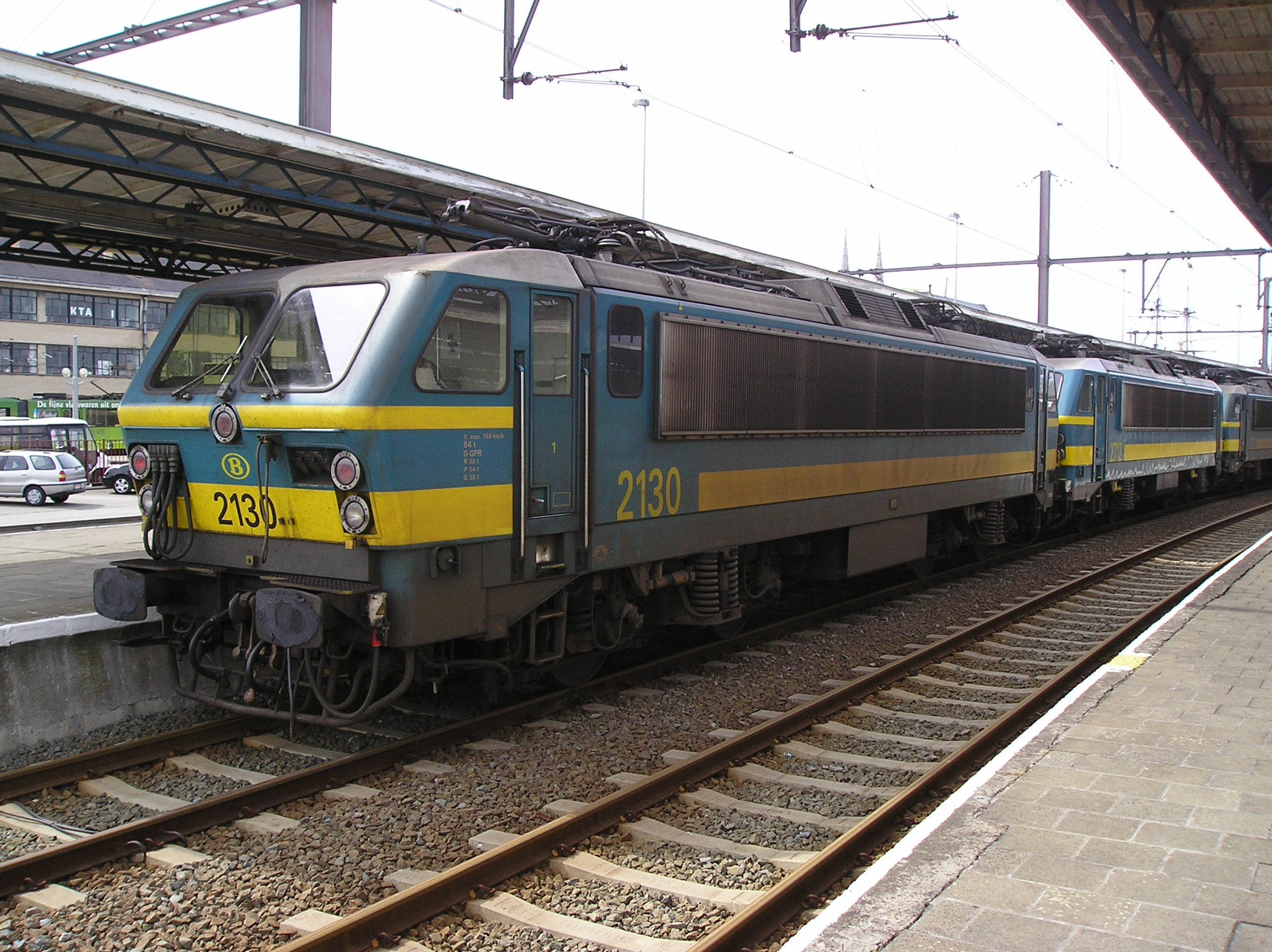 Electric locomotive No 2130 of the Belgian railways, Ostend train station. 21 stands for locomotive series and 30 for the number of this particular locomotive inside the series.